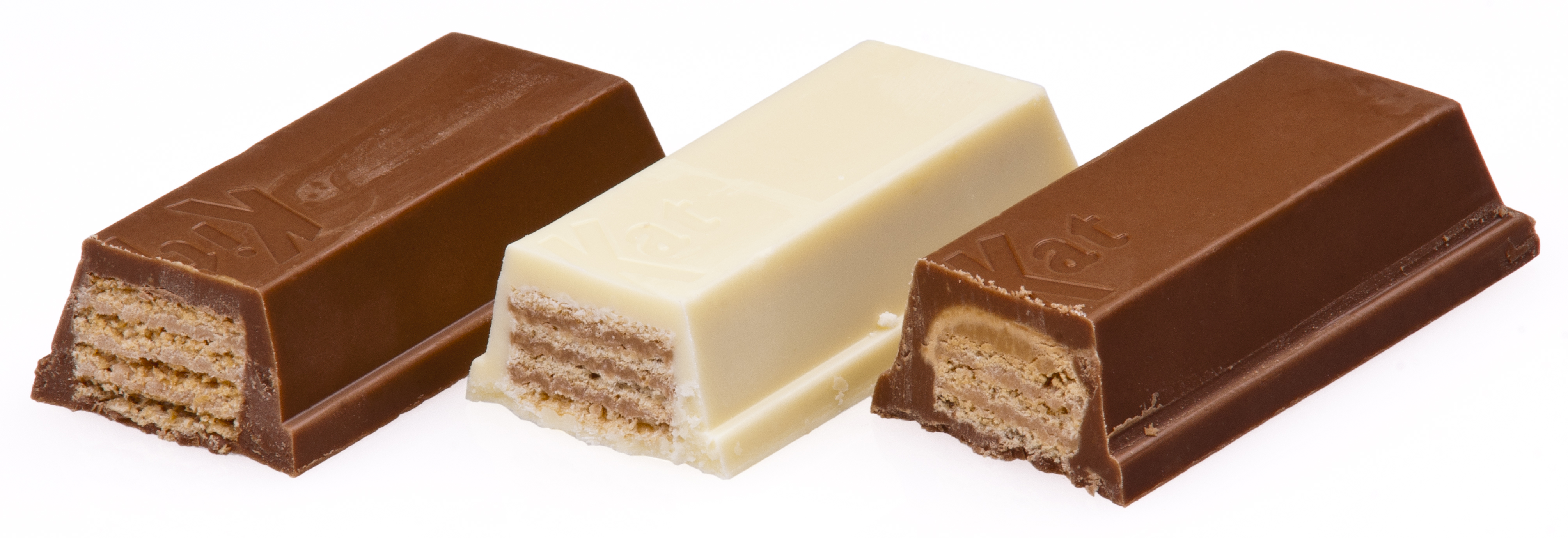 An array of big Kit Kat bars. These are from the UK and from left: Chunky, White and Caramel. Made by Nestle.